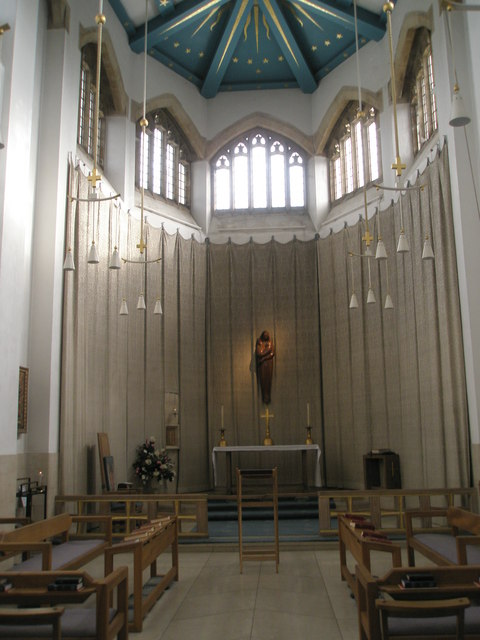 The beautiful Lady Chapel within the cathedral dedicated to the Holy Spirit at Guildford